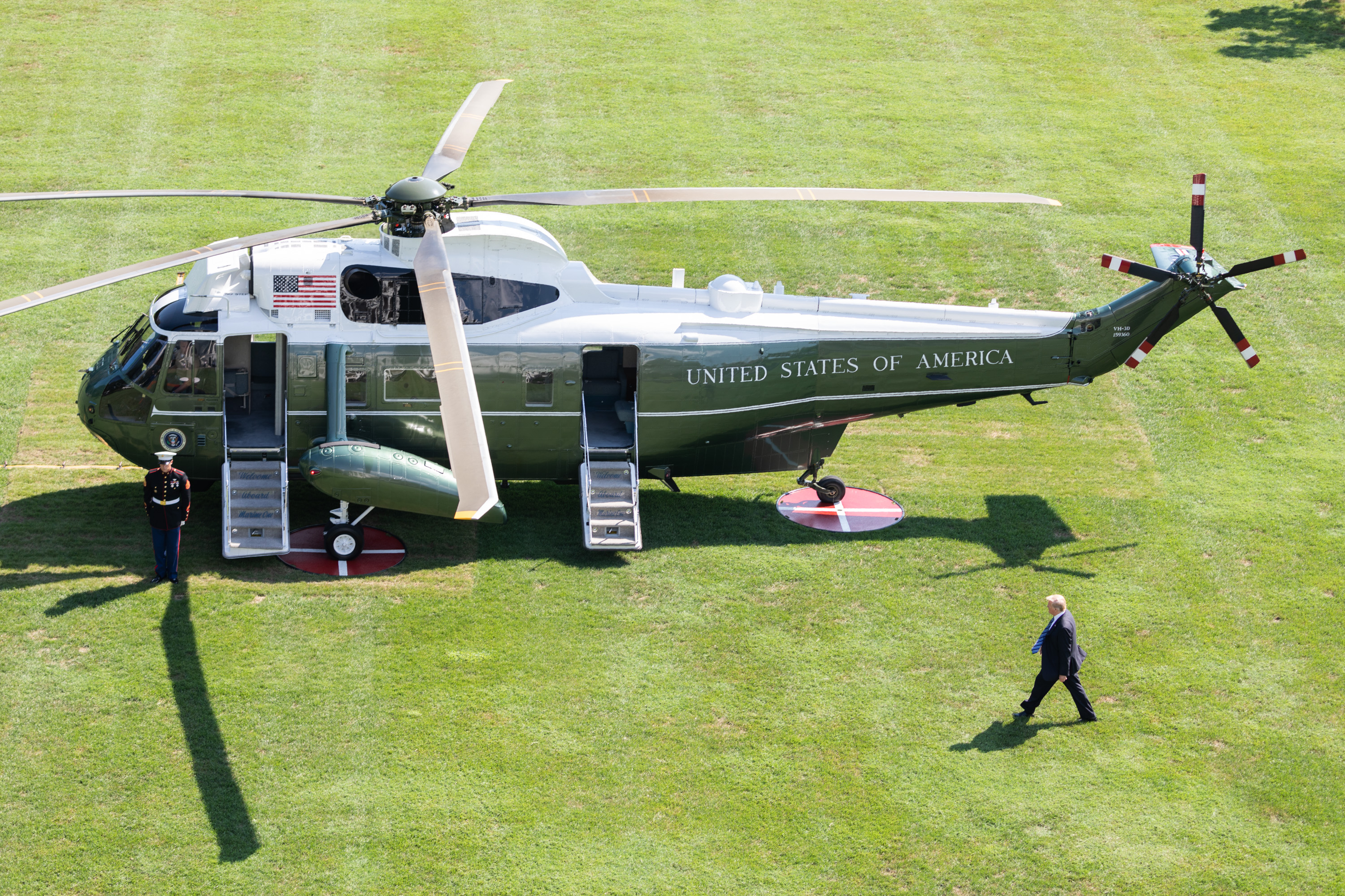 President Donald J. Trump departs from the South Lawn of the White House | September 6, 2018 (Official White House Photo by Shealah Craighead)